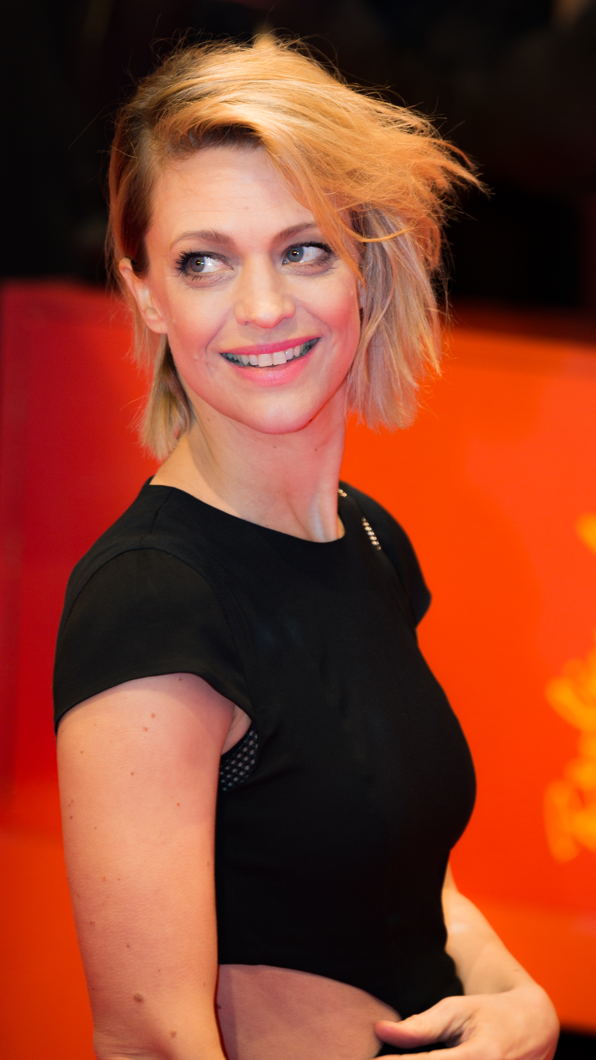 Heike Makatsch on the red carpet of the Berlinale 2017 opening film